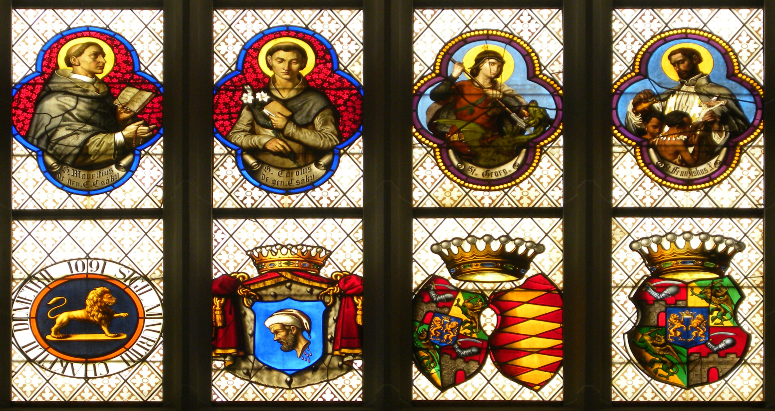 Stained glass window in the transept of the St. Elisabeth (of Hungary) Cathedral, Košice, Slovakia (formerly Kassa, Hungary. Upper row, from the left: Bl. Móric Csák, Bl. Károly Csáky, St. George, St. Francis Xavier. Lower row, from the left: seal of bl. Móric Csák, coats of arms of the Hungarian Csáky noble family, György Andrássy (1797 - 1872) and Franziska, born zu Königsegg-Aulendorf (1814 - 1871) and the Andrássy Hungarian noble family.